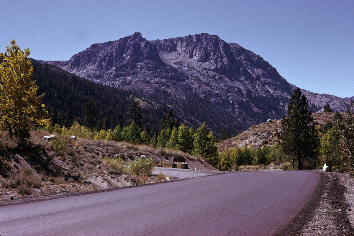 Landscape in Sierra Nevada, California in 1970. Exact place is unknown. Image reedited in the late 2000s and scanned in 2012.